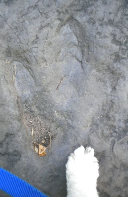 Dinosaur Footprints, Holyoke, MA, Trustees of Reservations